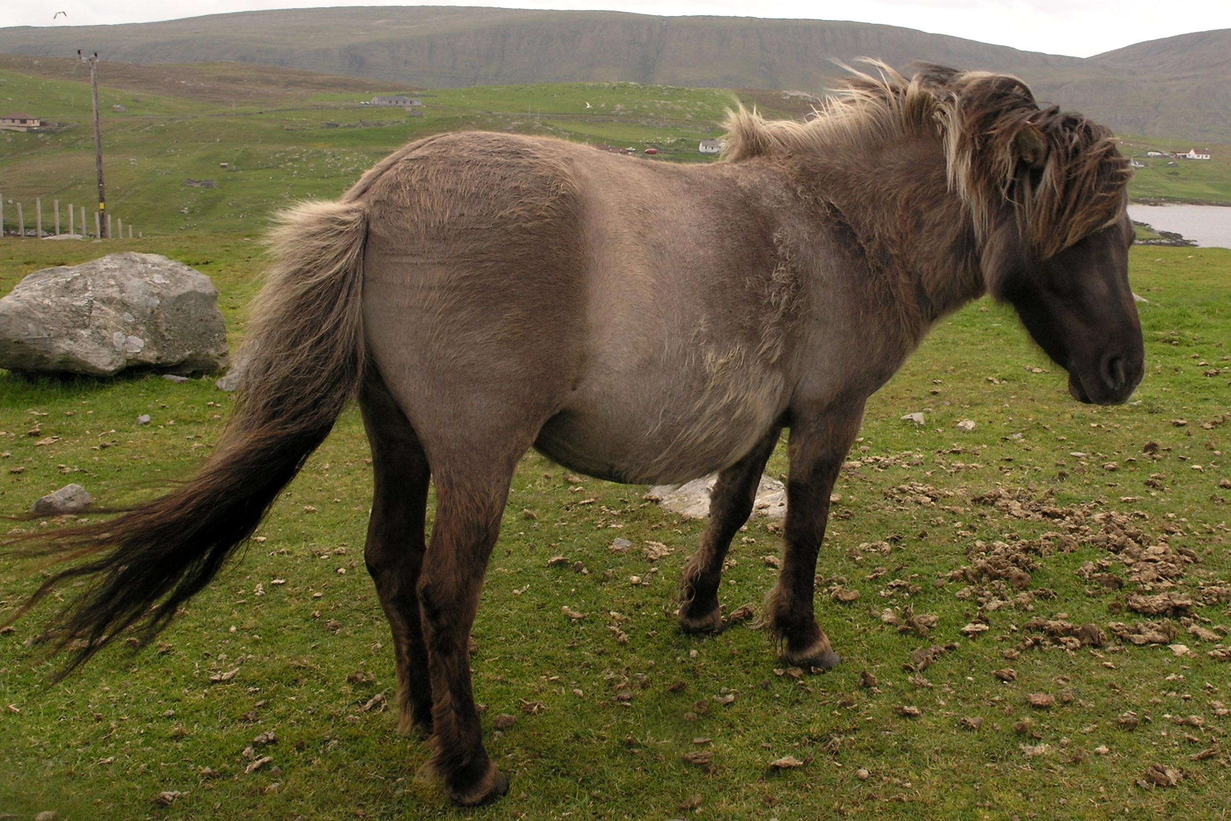 shetland pony